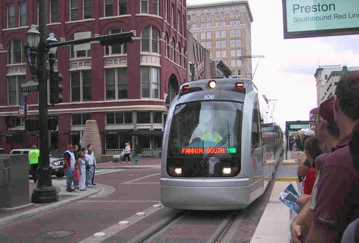 A METRORail train approaching Preston Station in downtown Houston, Texas, USA.